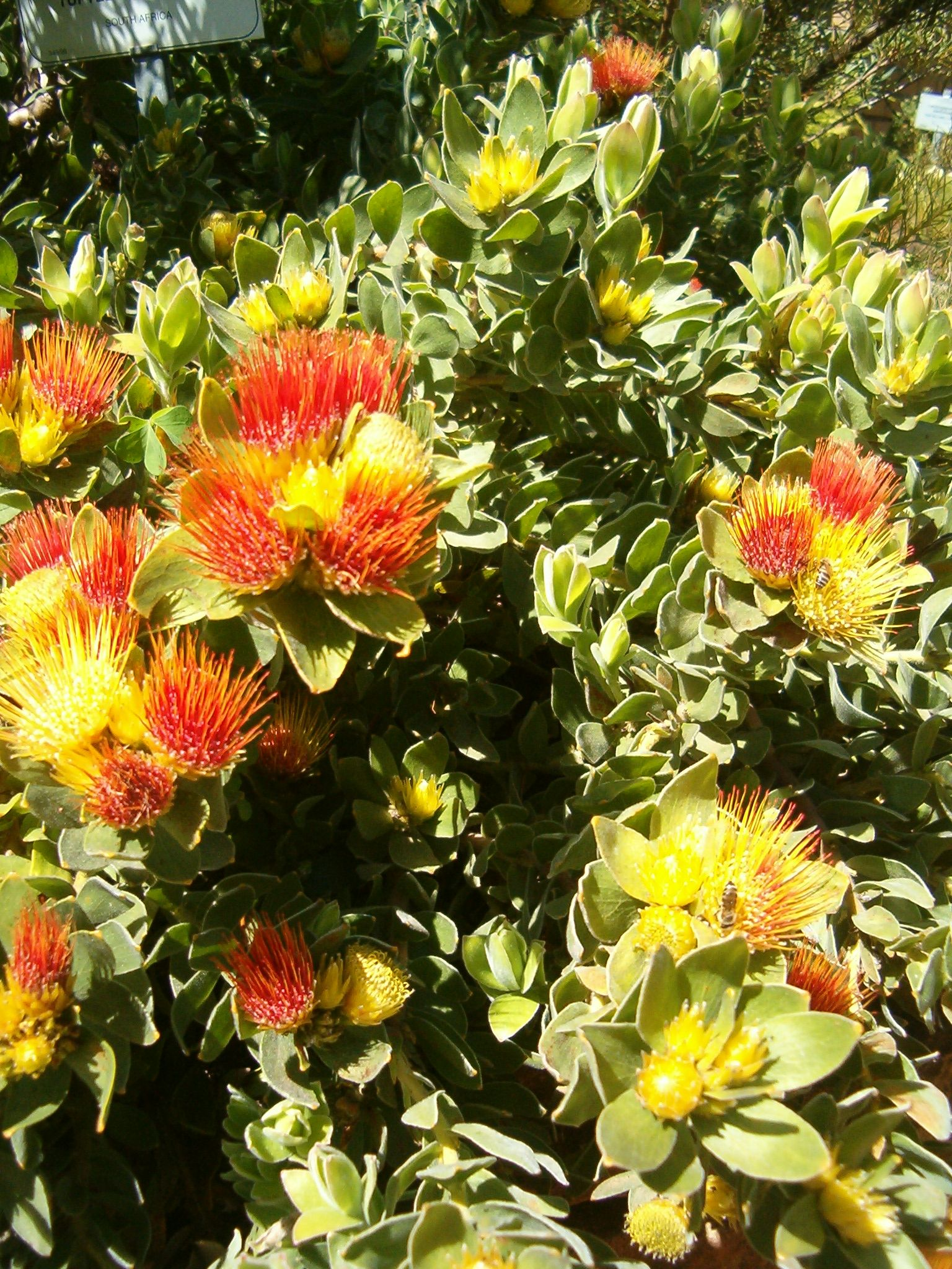 At Kirstenbosch National Botanical Gardens Species Leucospermum oleifolium